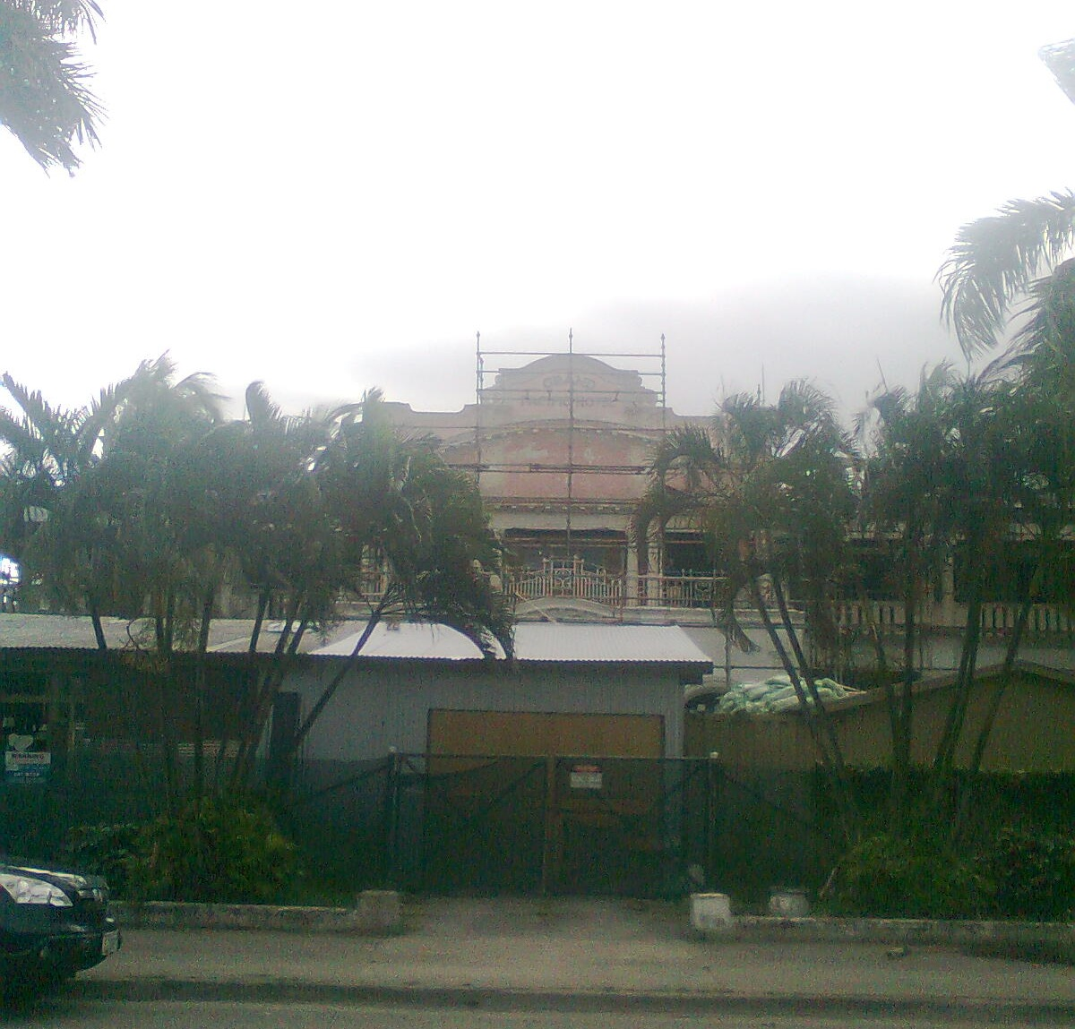 Fiji's Grand Pacific Hotel was still under construction in October 2012.